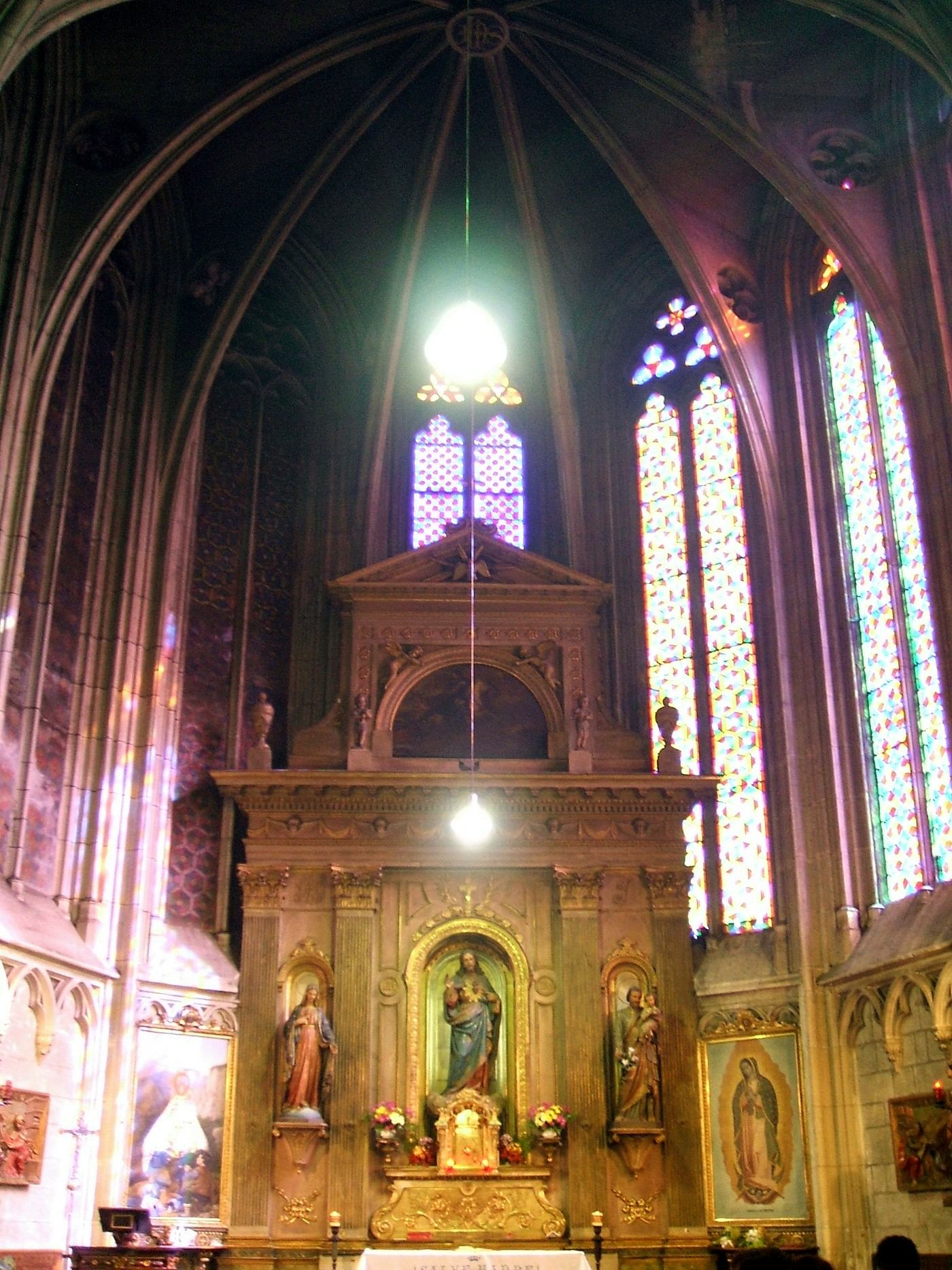 Parroquia de Santa María (ex Capilla de Santiago de la Catedral de Santa María), Vitoria-Gasteiz, País Vasco, España